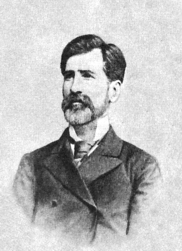 Dimitri Bakradze